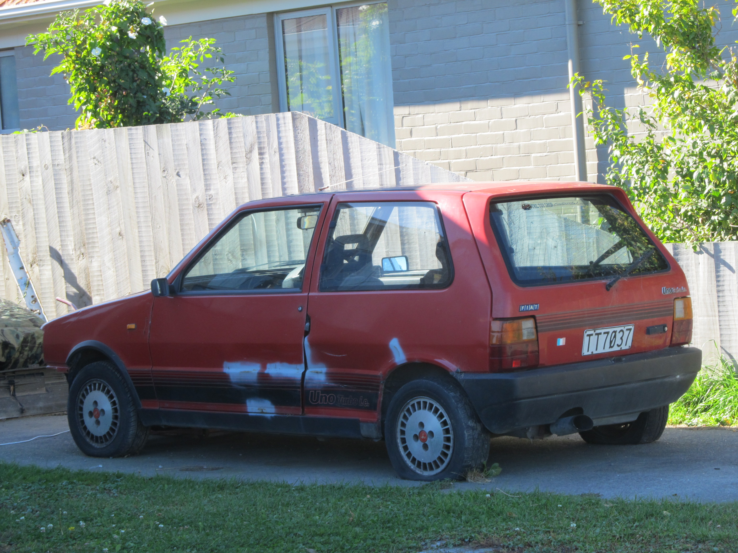 TT7037 I was rather taken aback at seeing this neglected on a driveway! Apparently it's only been off the road since 2010... There were also a few cars in front of it, covered in old bedsheets!